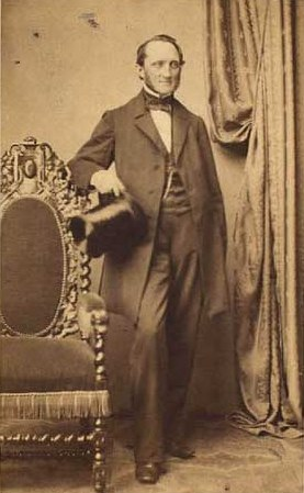 Danish industrialist, businessman, politician Lauritz Peter Holmblad (1815-1890)